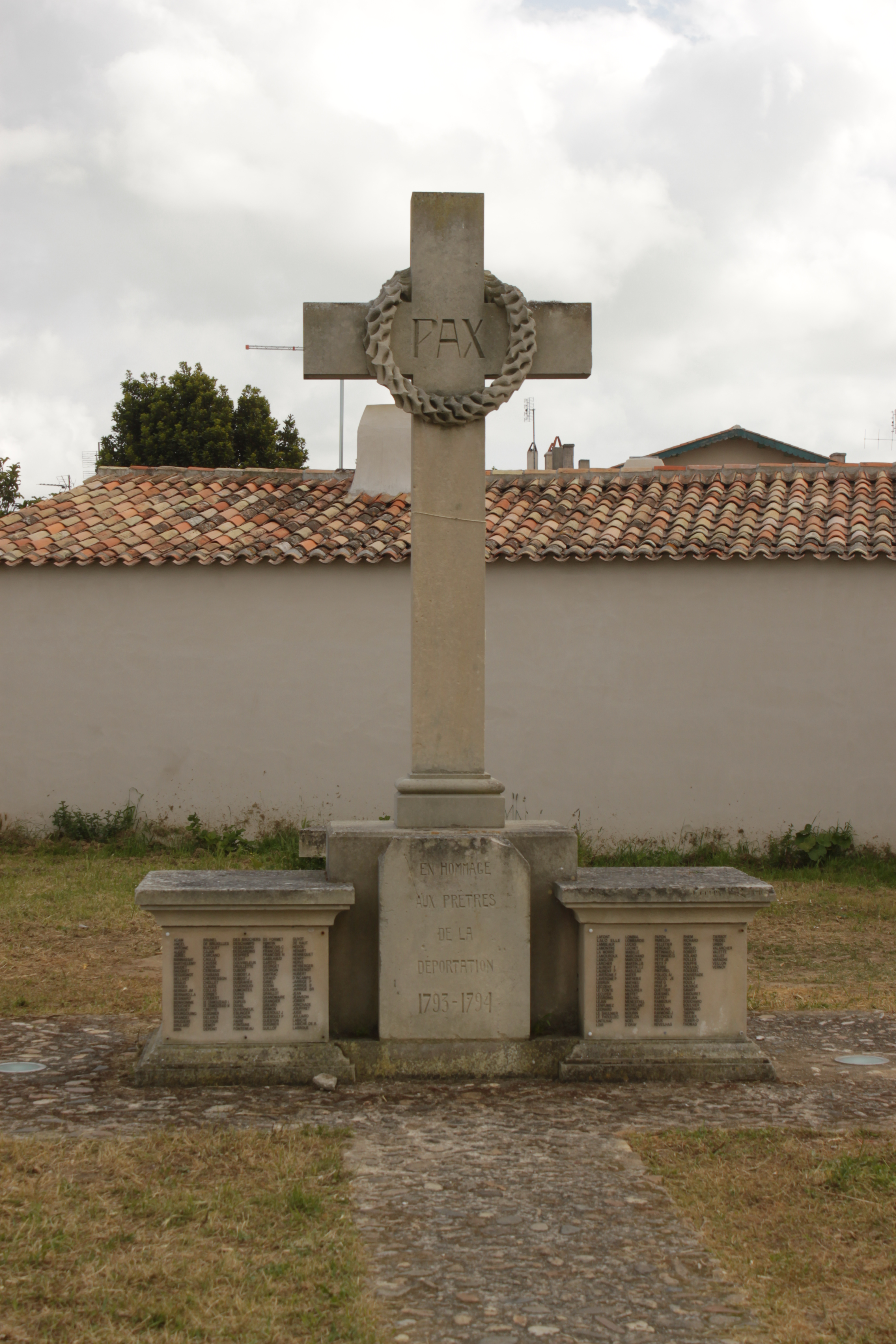 Memorial In Mem. of "Prêtres de la Déportation 1793-1794", Fr-17-Île d'Aix.